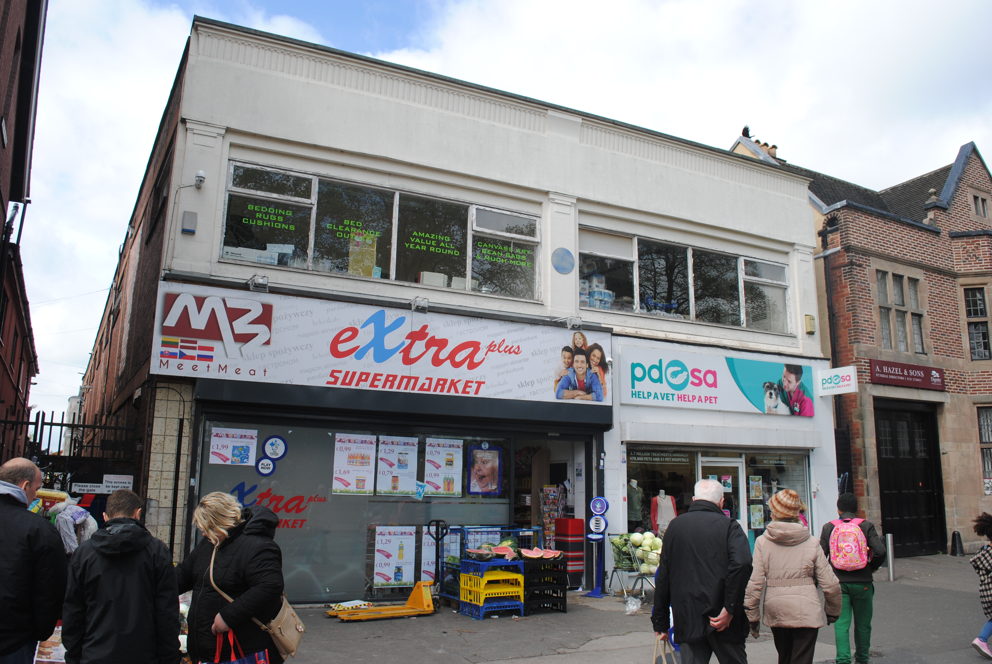 The upper floor of this building was, from 1968-1971, the venue for Mothers, a nightclub where many top bands of the era performed. Picture taken on the 50th anniversary of the concert where Pink Floyd recorded part of their live album, "Ummagumma".